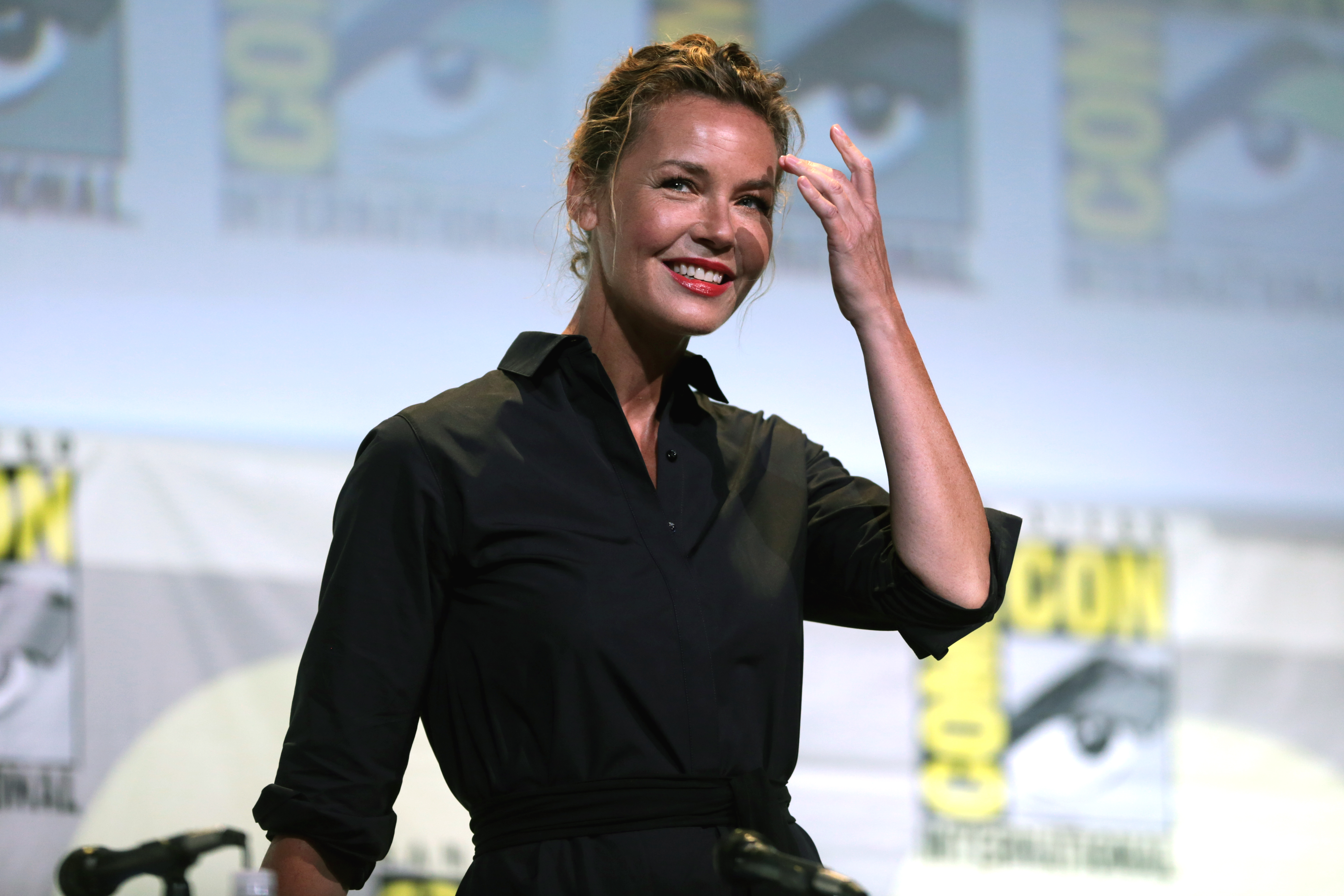 Connie Nielsen speaking at the 2016 San Diego Comic Con International, for "Wonder Woman", at the San Diego Convention Center in San Diego, California.